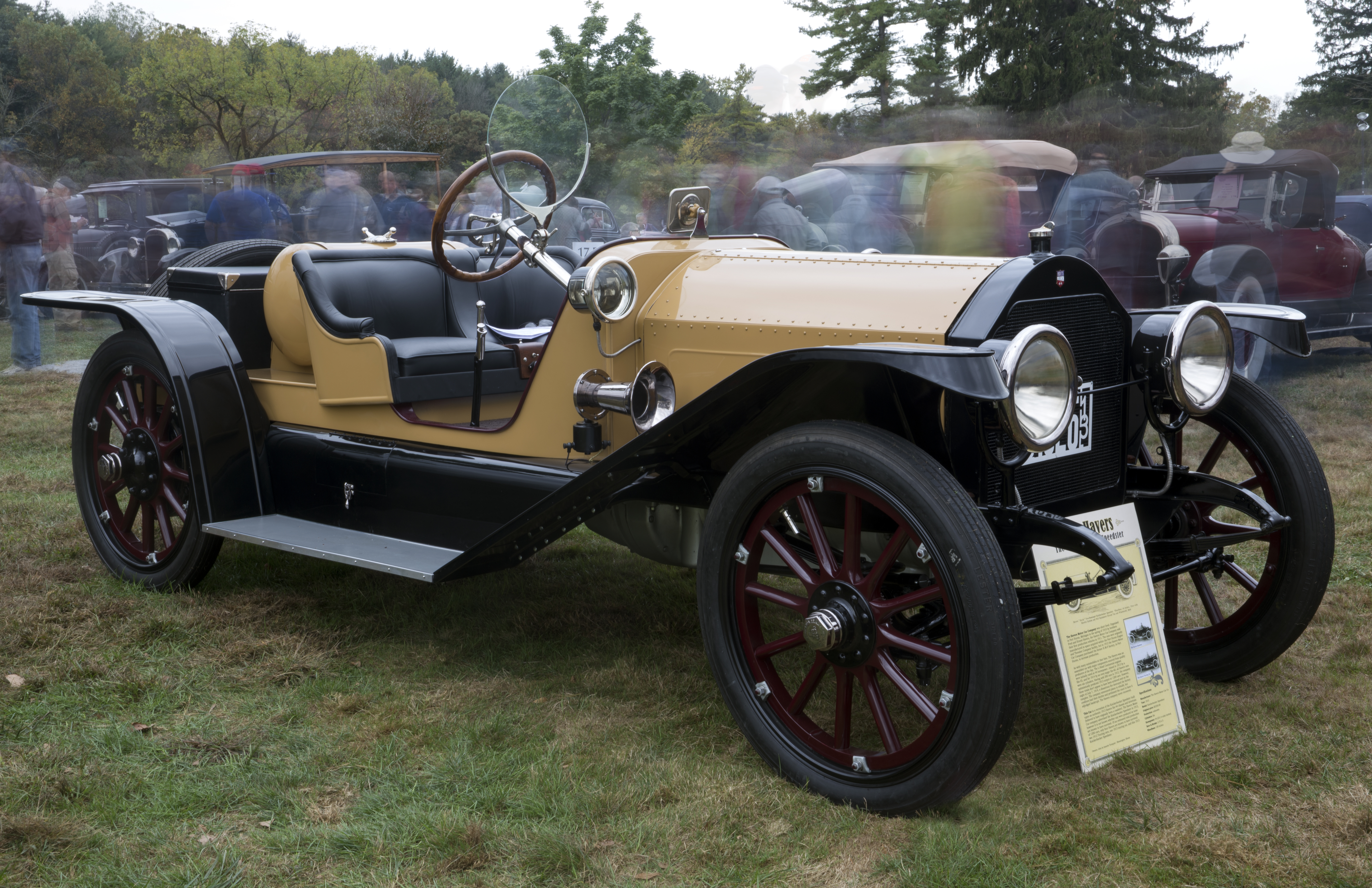 A 1913 Havers Knickerbocker Speedster recreation on a Six-44 chassis in the show area at Hershey 2019. It is unknown if any Knickerbocker Speedsters were actually built, with the only evidence of the model being advertising drawings. Only four Havers cars are known to still exist, out of about 1,200 produced: two 1912 touring cars, one 1913 touring car, and this one.